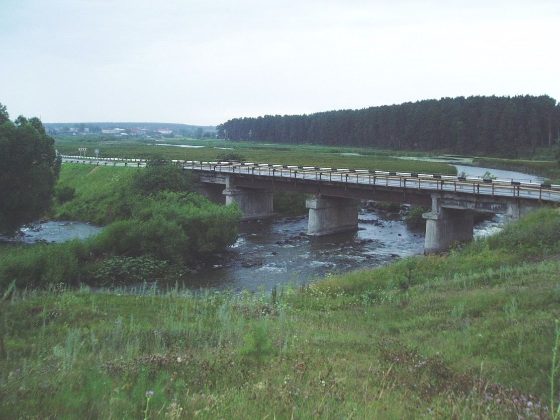 Bridge over the Pyshma River near the urban type settlement Beloyarskiy, Sverdlovsk Oblast (Russia). Road goes to the left in the direction of the town of Asbest.